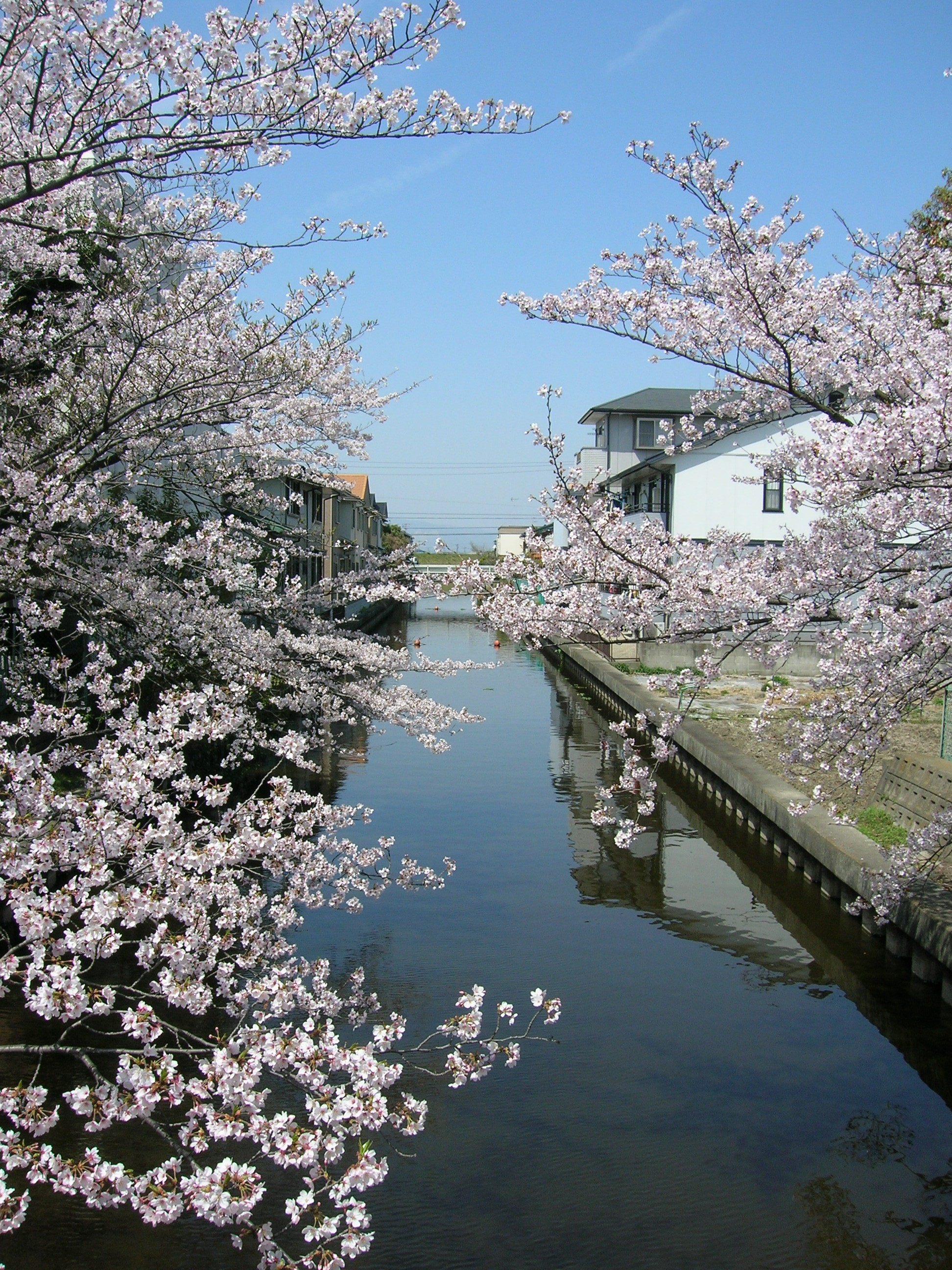 Saya-gawa (Saya river) Loc: Kanie town, Ama District, Aichi Prefecture, Japan. 佐屋川 撮影場所 蟹江町八幡2丁目・佐屋川創郷公園から上流方向